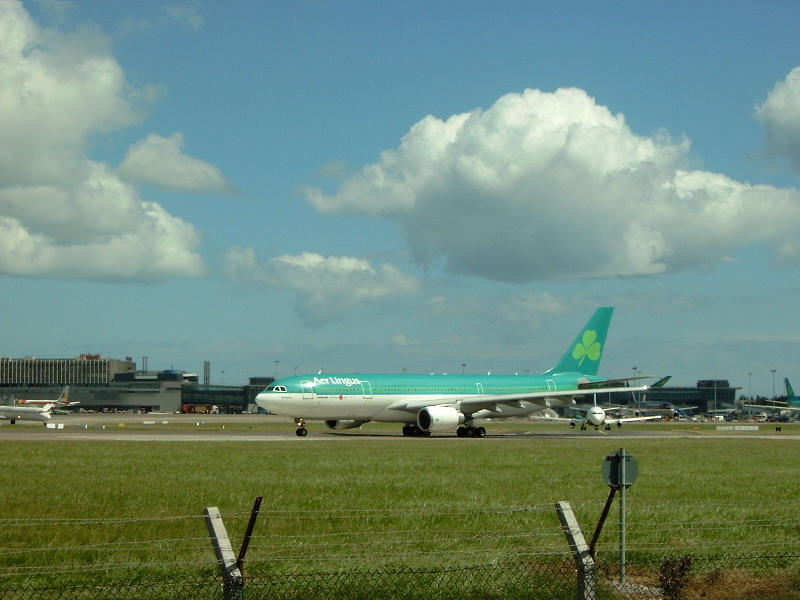 Aer Lingus Airbus A321-200 just about to take off from Dublin Airport. (Take by myself; July 2005).